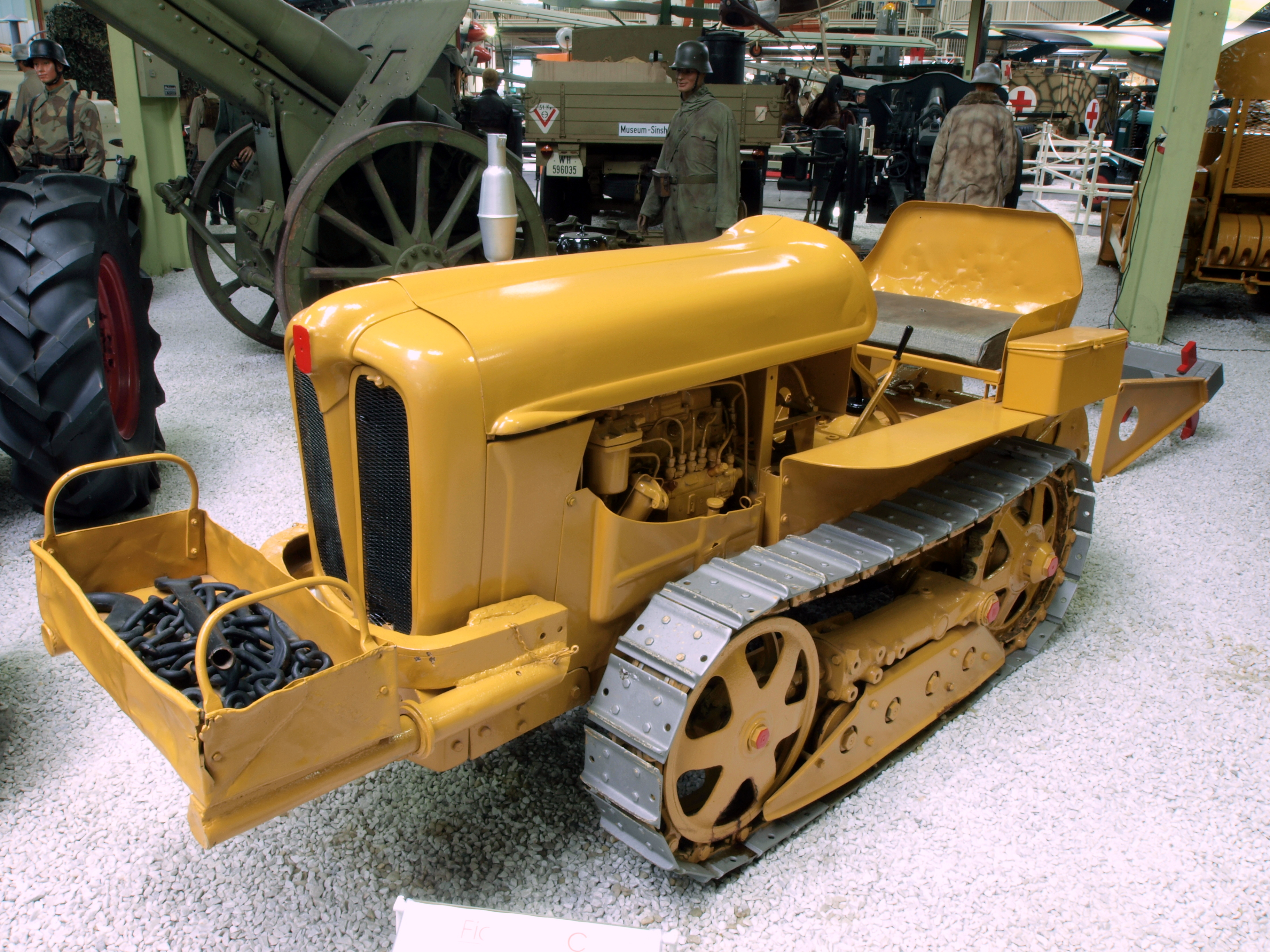 Photographed at the Auto & Technic museum Sinsheim.